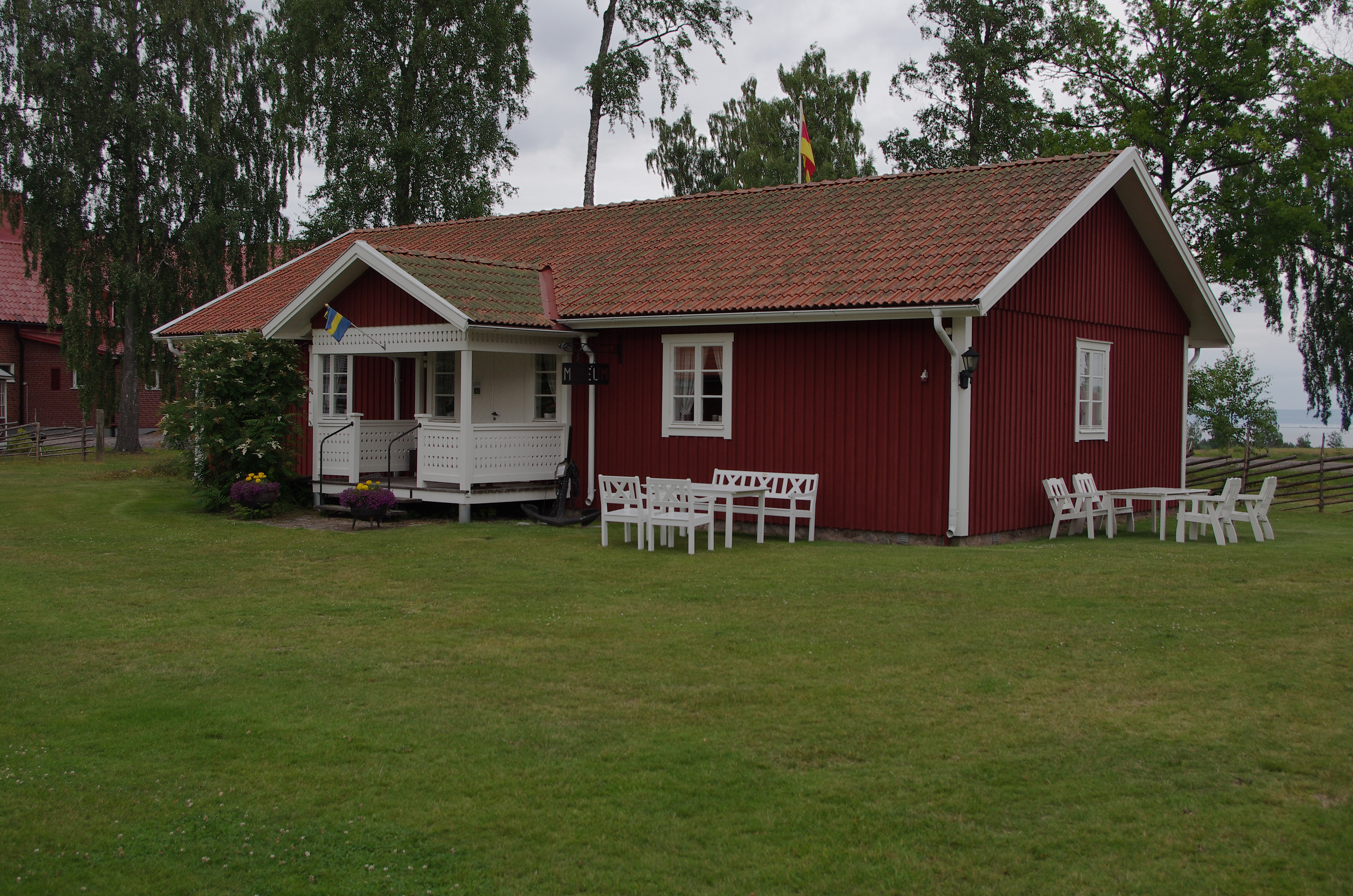 The village and parish Brandstorp in Västergötland, Sweden.